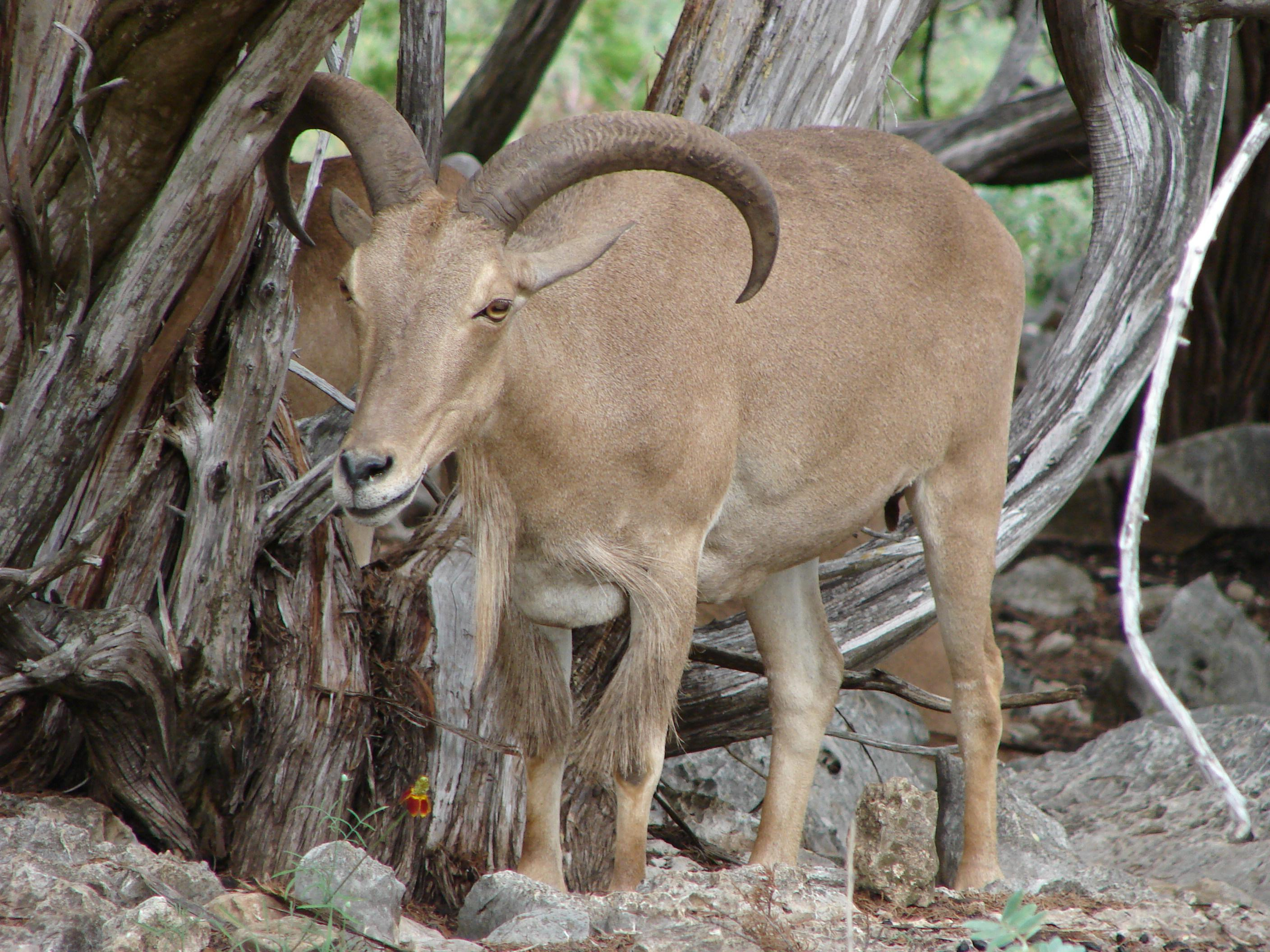 A female Barbary Sheep